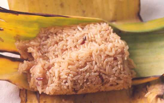 sticky rice in traditional banana-leaf wrapper; picture taken by User:Markalexander100 in summer 2004